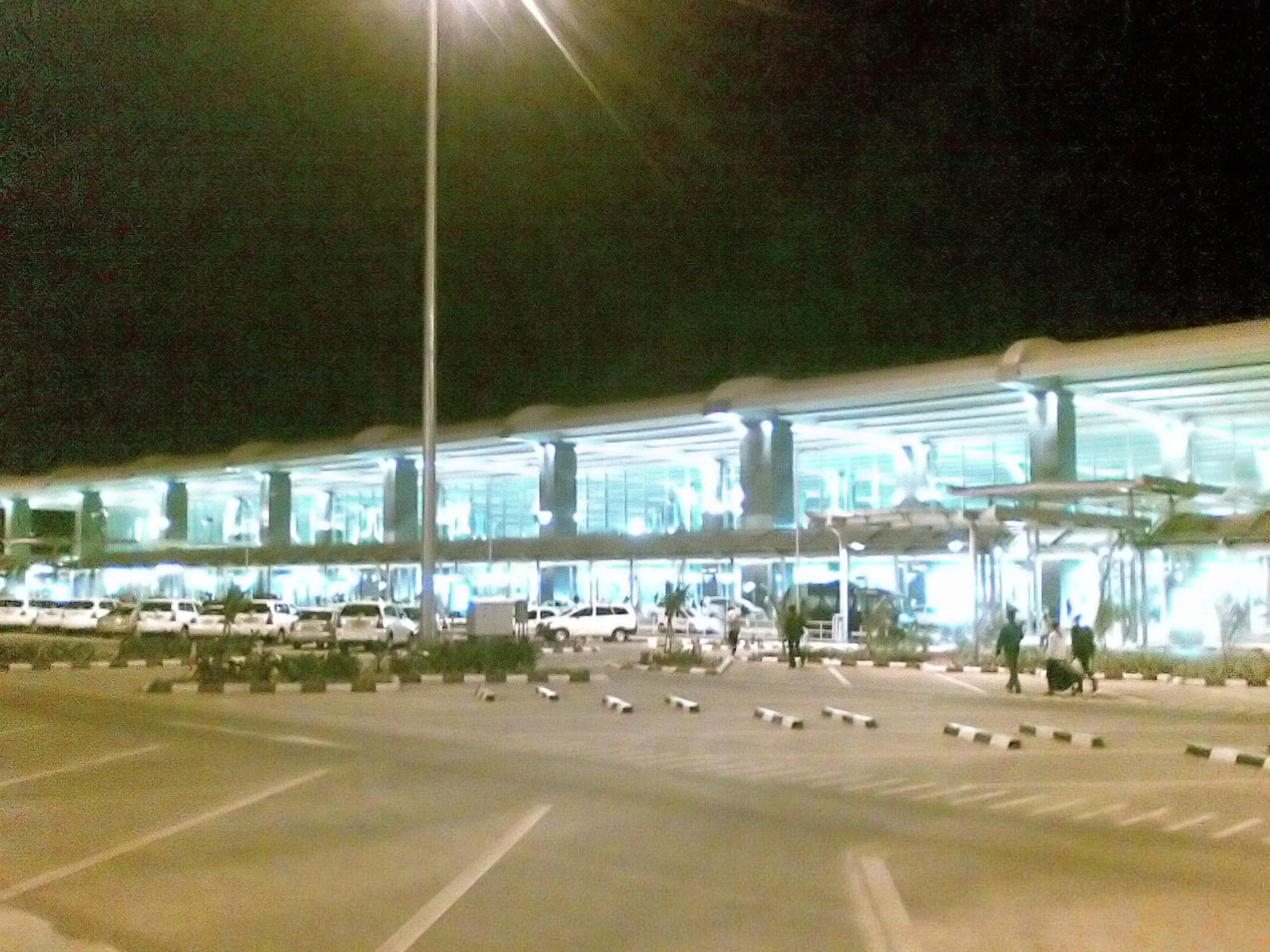 The Bengaluru International Airport terminal at night